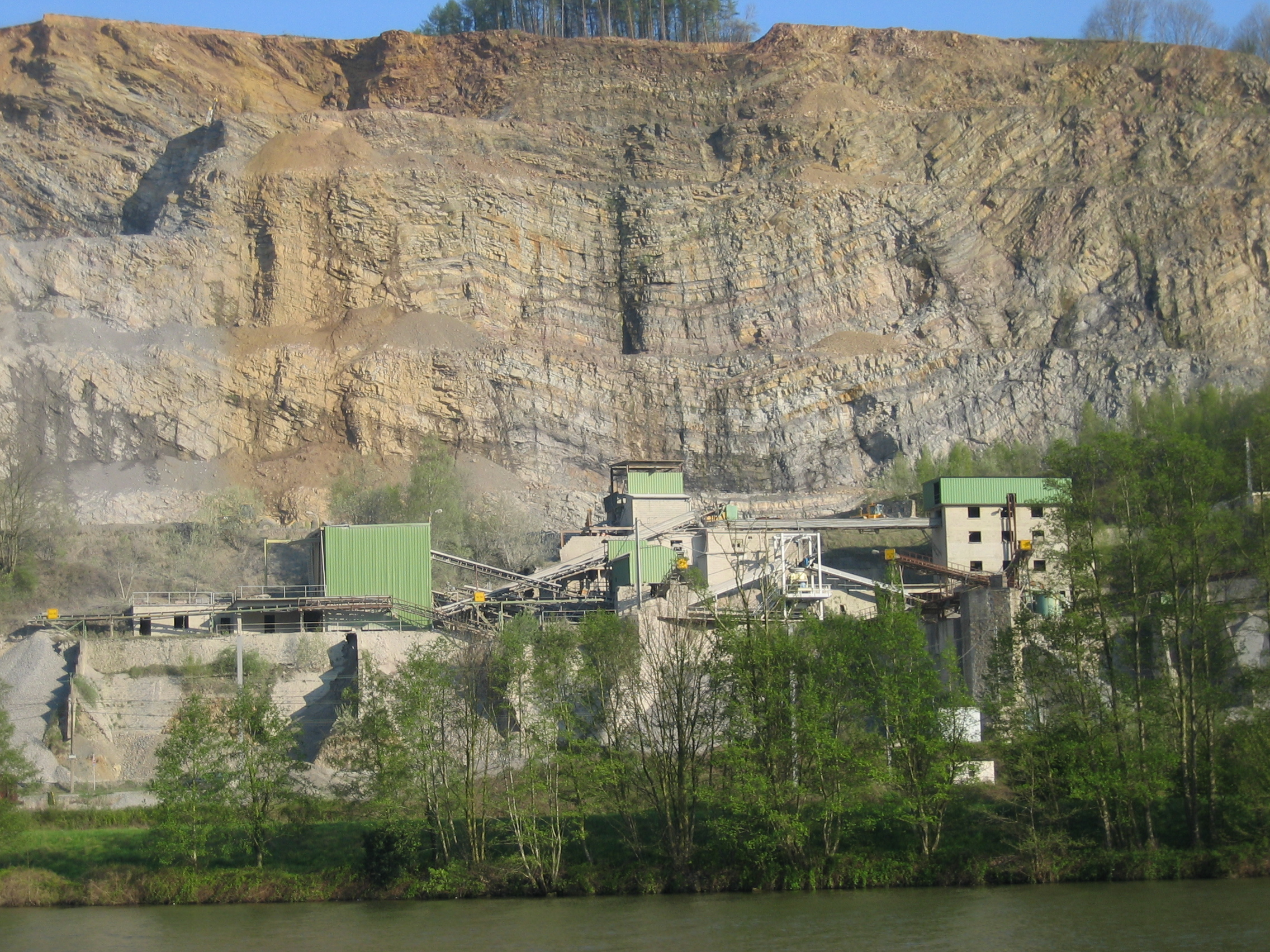 Synclinal structure in Profondeville, Belgium.